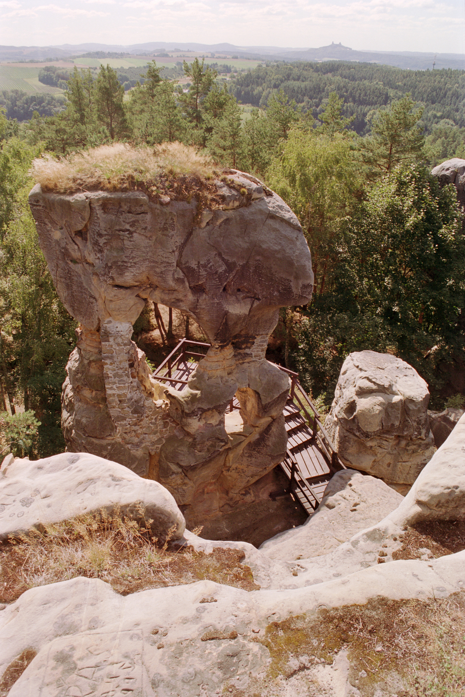 castle Rotštejn in Czech Republic, in the background castle Trosky own picture, taken in late summer 2004